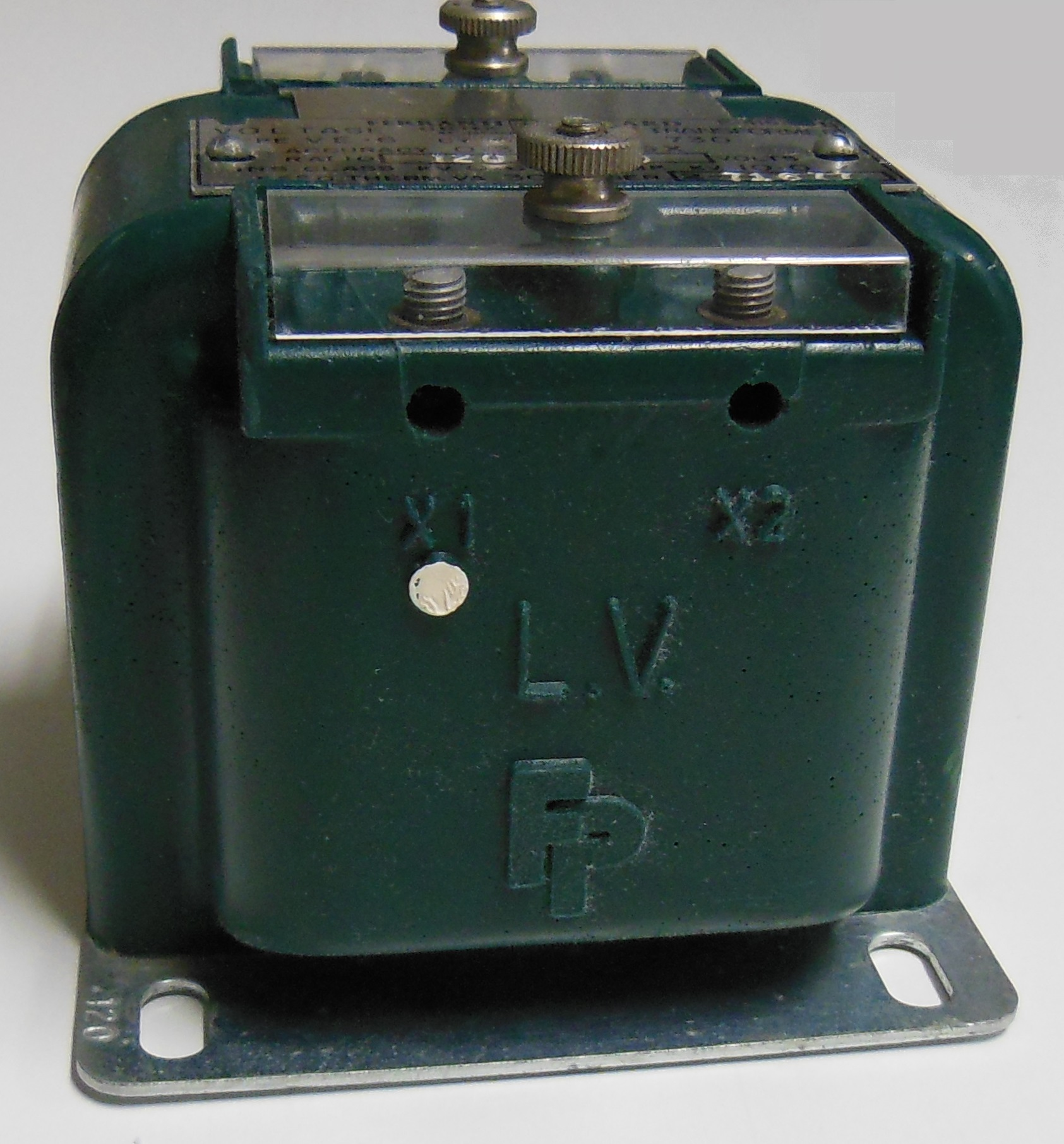 Instrument Transformer showing LV winding side with two instantaneous polarity marking styles